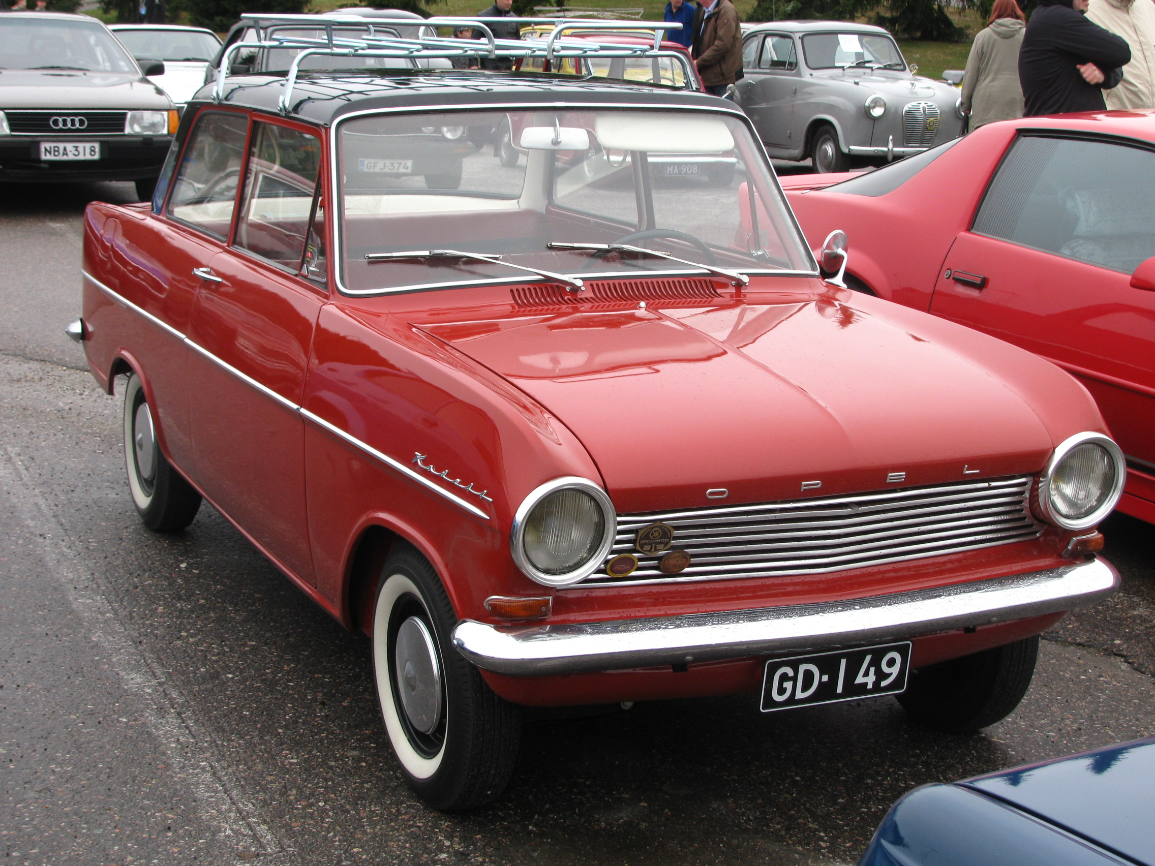 Opel Kadett A, Classic Motor Show parking lot in Lahti, Finland.